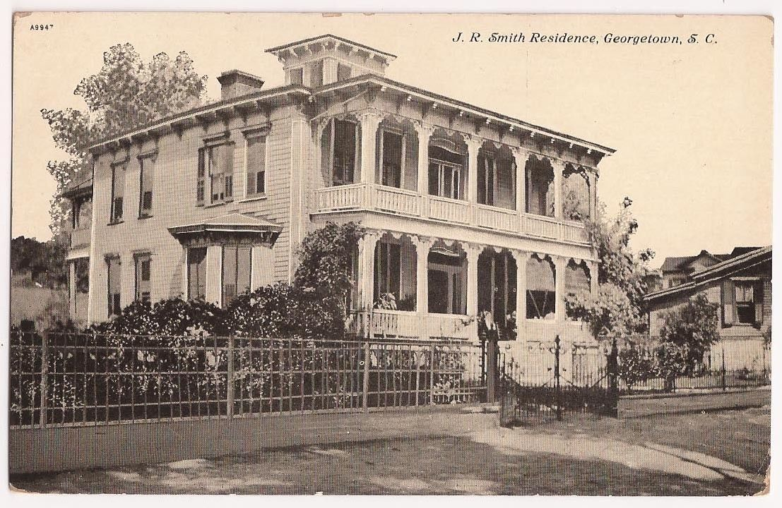 A postcard image of the Victorian era J.R. Smith House — at 722 Prince Street, Georgetown, South Carolina.